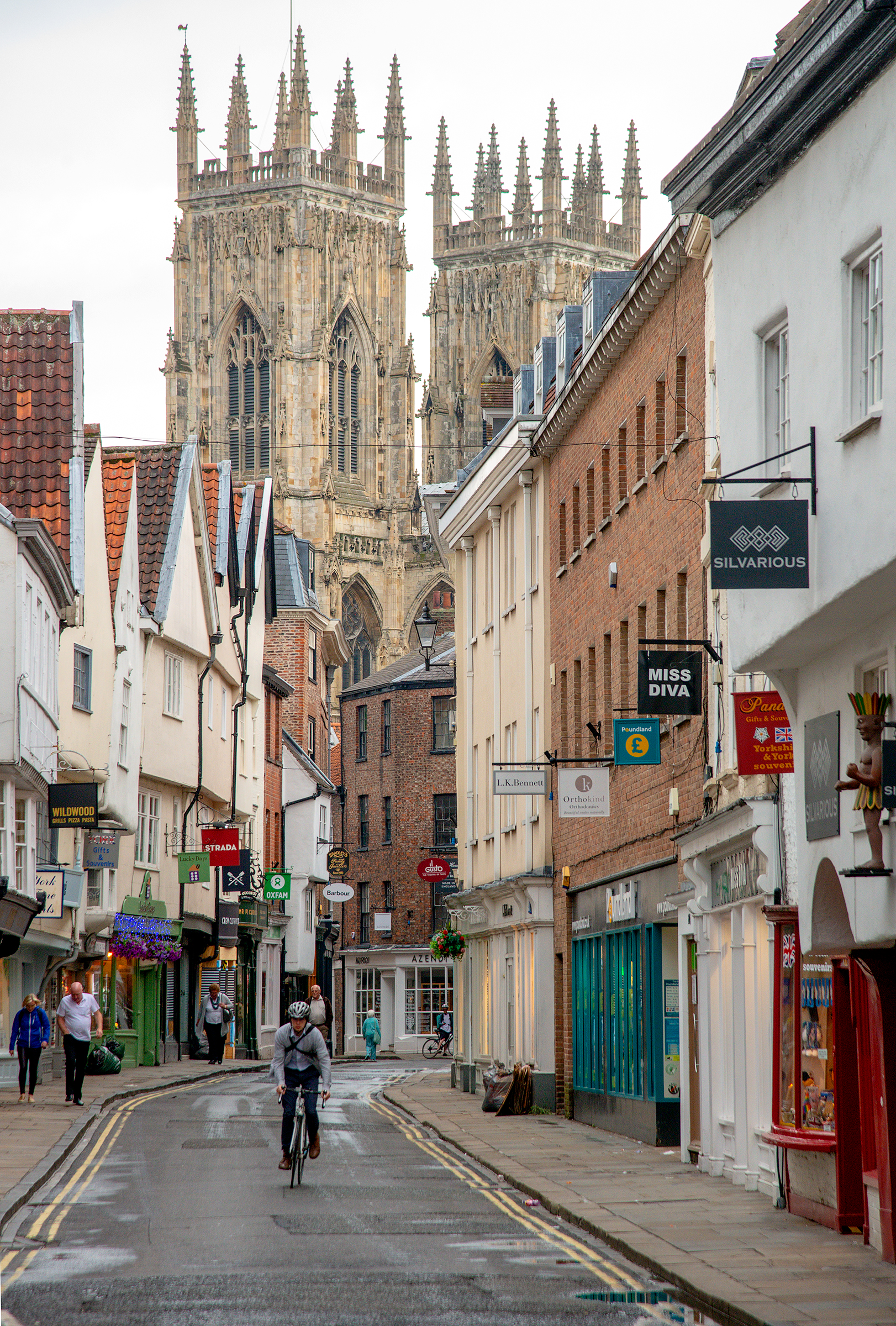 Lower Petergate with the cathedral in the background